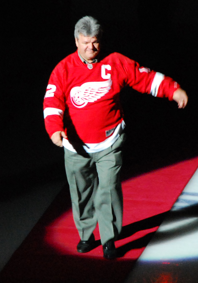 Marcel Dionne on Gordie Howe Night at the Pacific Coliseum in Vancouver, BC.